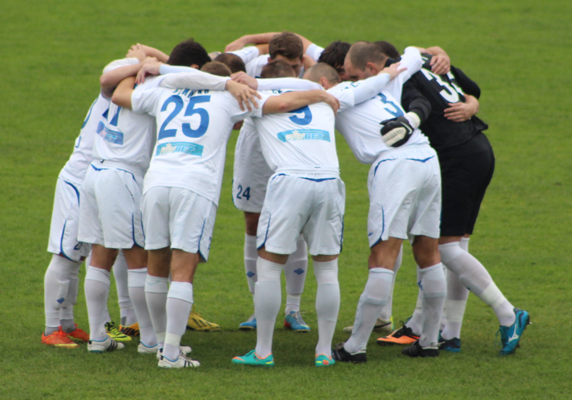 MFC Mykolaiv 2013/11/03